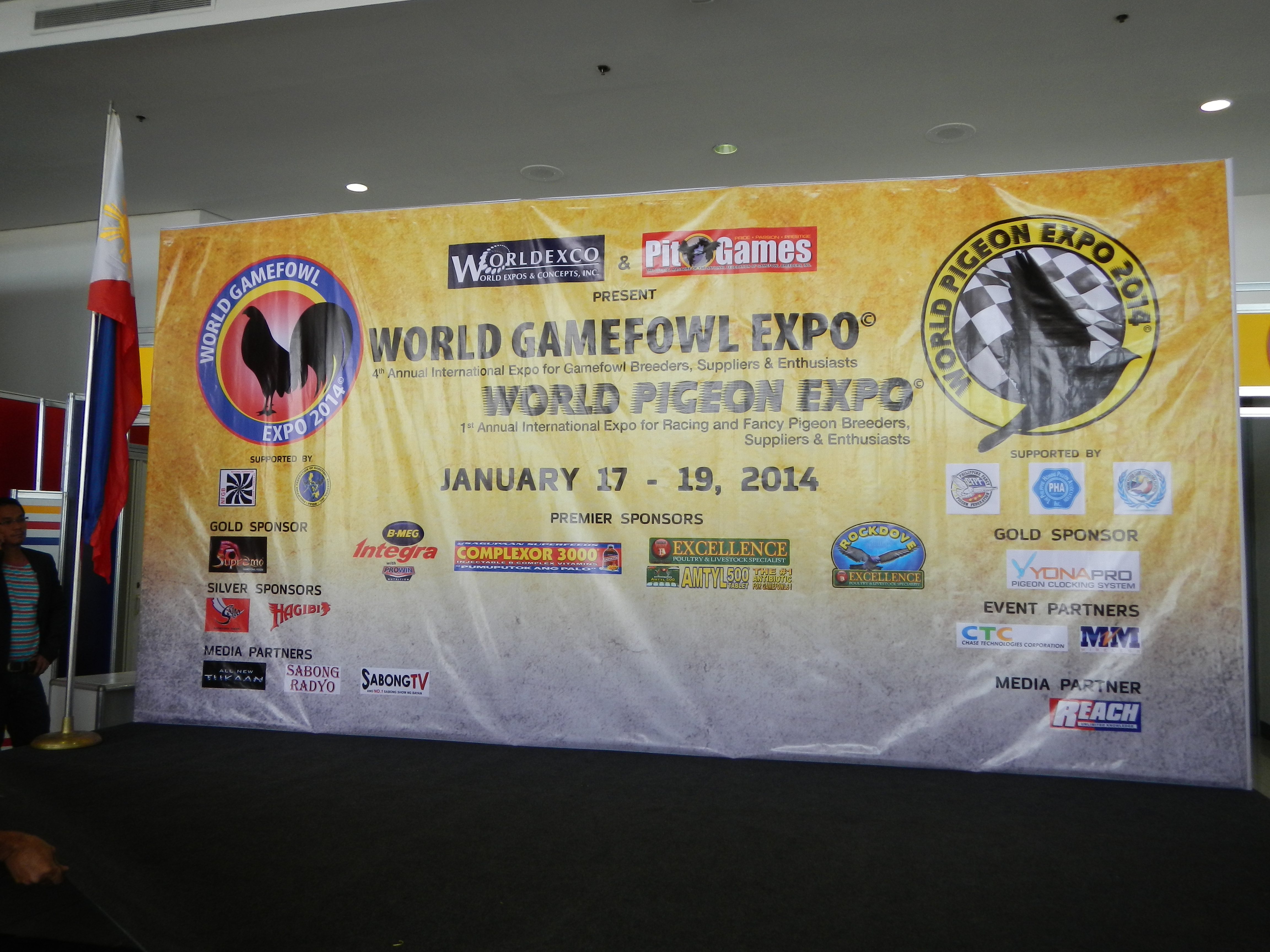 Upload Wizard photos of - the - Jalandoni Avenue or street Intersection, Junction, Crossing corner at Gil Puyat Ave. Extension[1] cor. Diosdado Macapagal Boulevard[2] Pasay City[3] beside the World Trade Center Metro Manila [4] [5] [6] (WTCMM) in the financial center of Pasay, Metro Manila, Philippines is a private corporation owned by the Manila Exposition Complex and the ICCP Group of Companies (with Guillermo D. Luchangco as Chairman and Chief Executive Officer). Established in January 1990, it is managed by the World Trade Center Management, Inc.